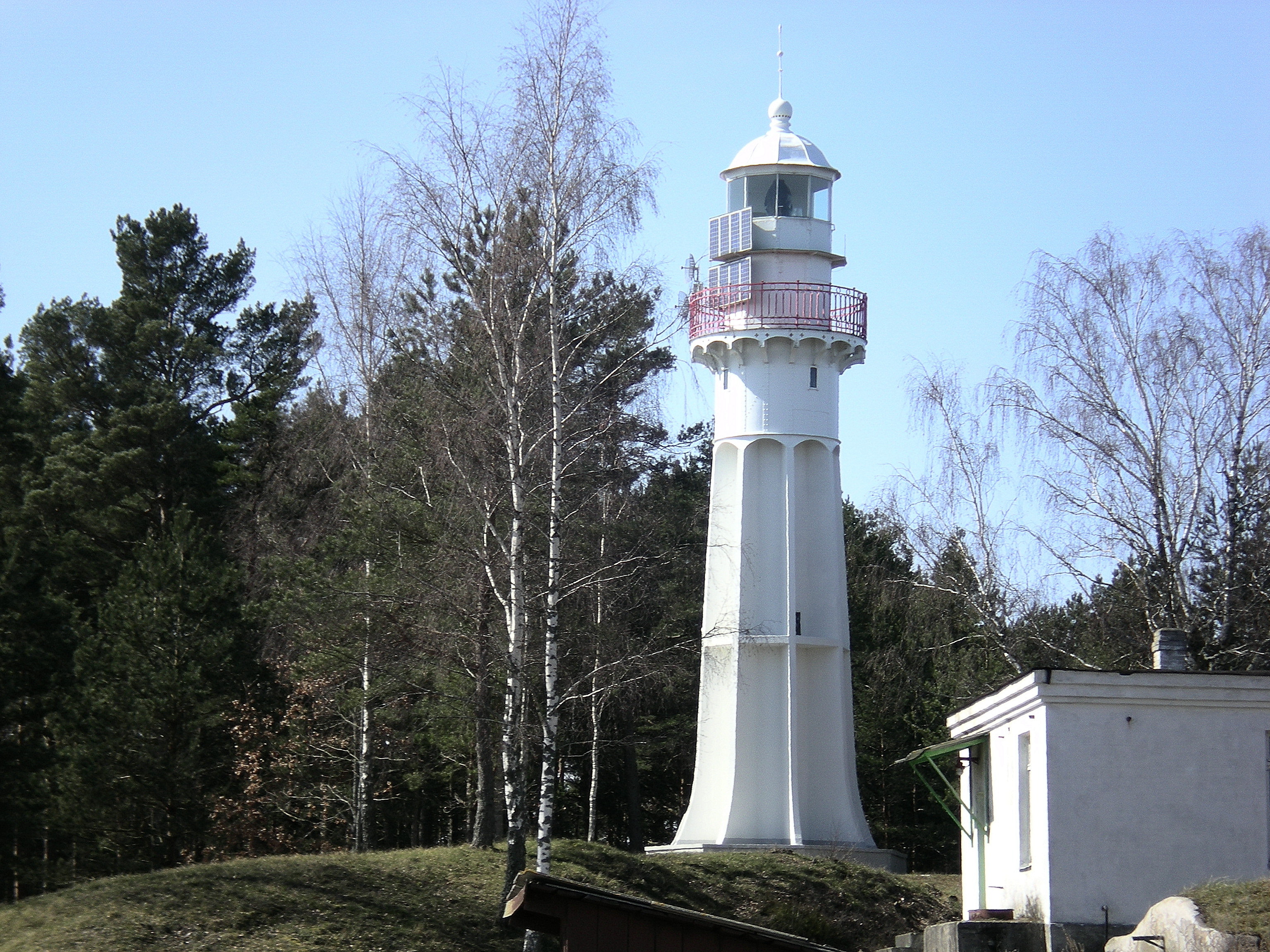 Mersrags lighthouse